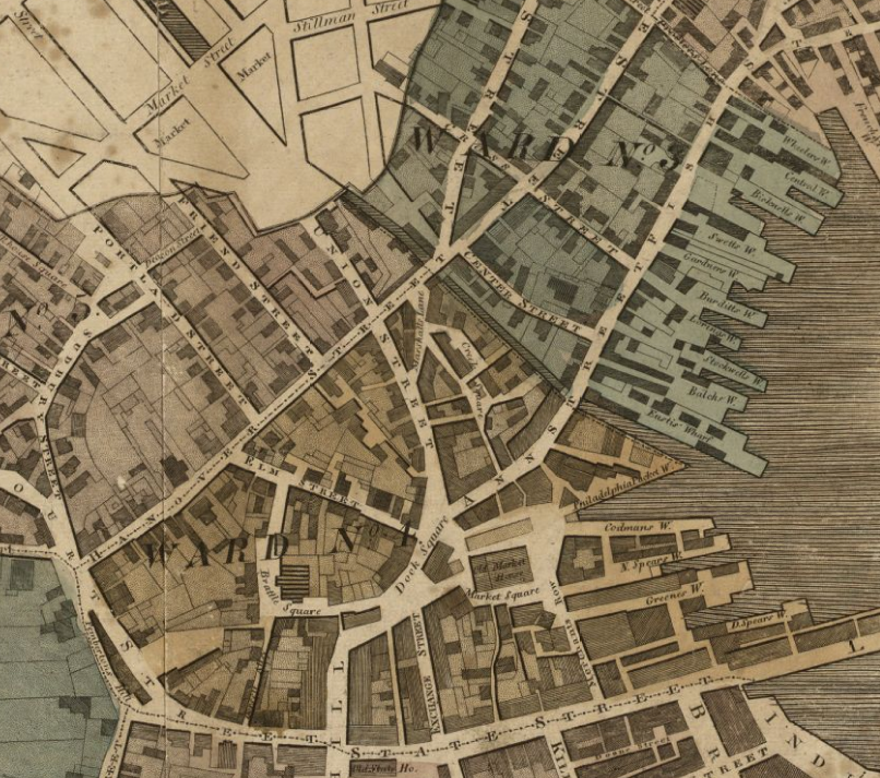 Detail of 1814 map of Boston by John Groves Hale, showing Ann St. and vicinity.